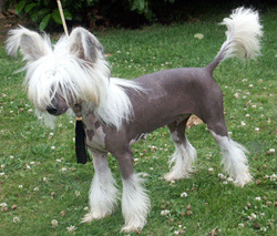 chinese crested dog